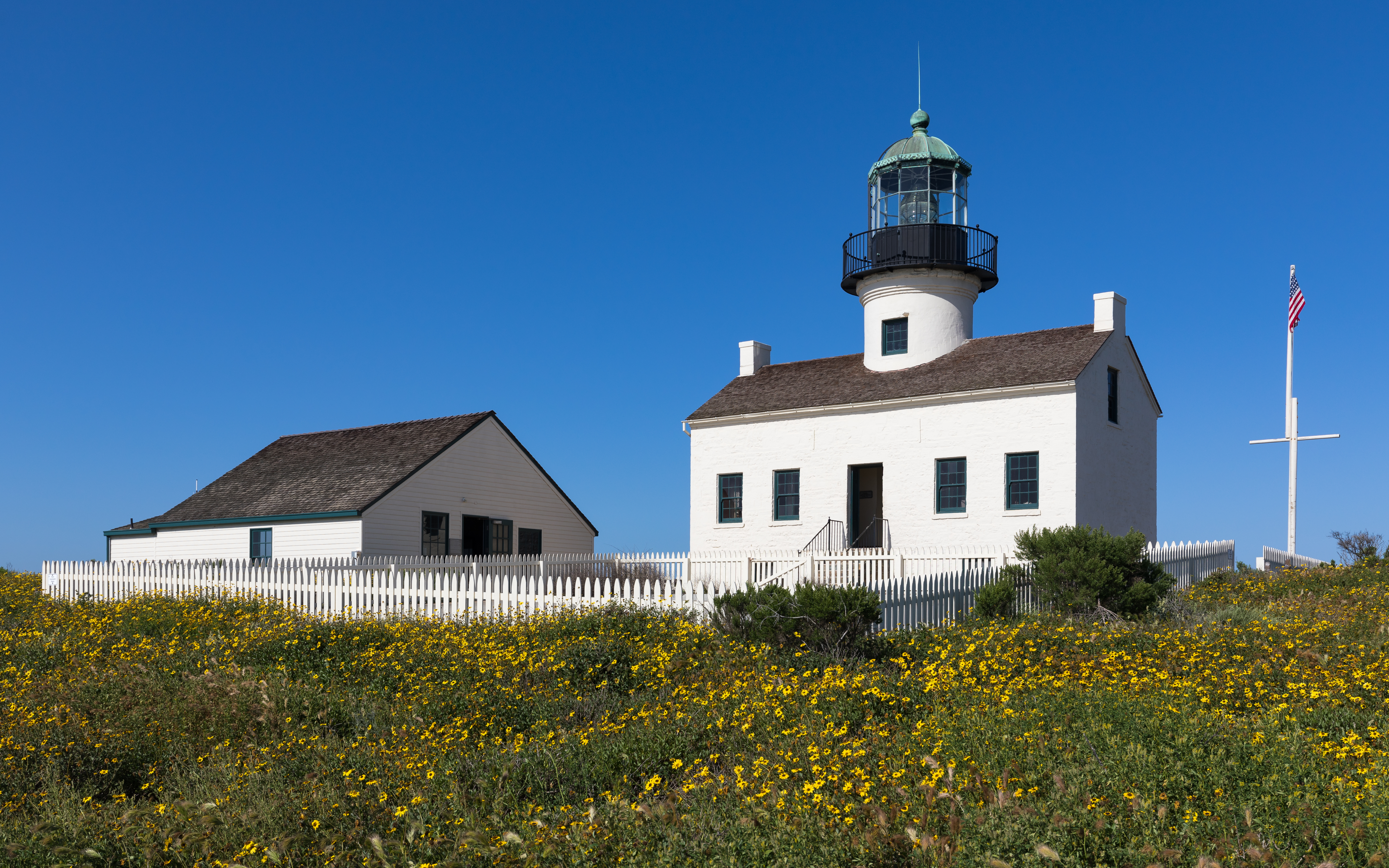 Old Point Loma Light Station on the Point Loma peninsula at the mouth of San Diego Bay in San Diego, California, United States, in April 2019